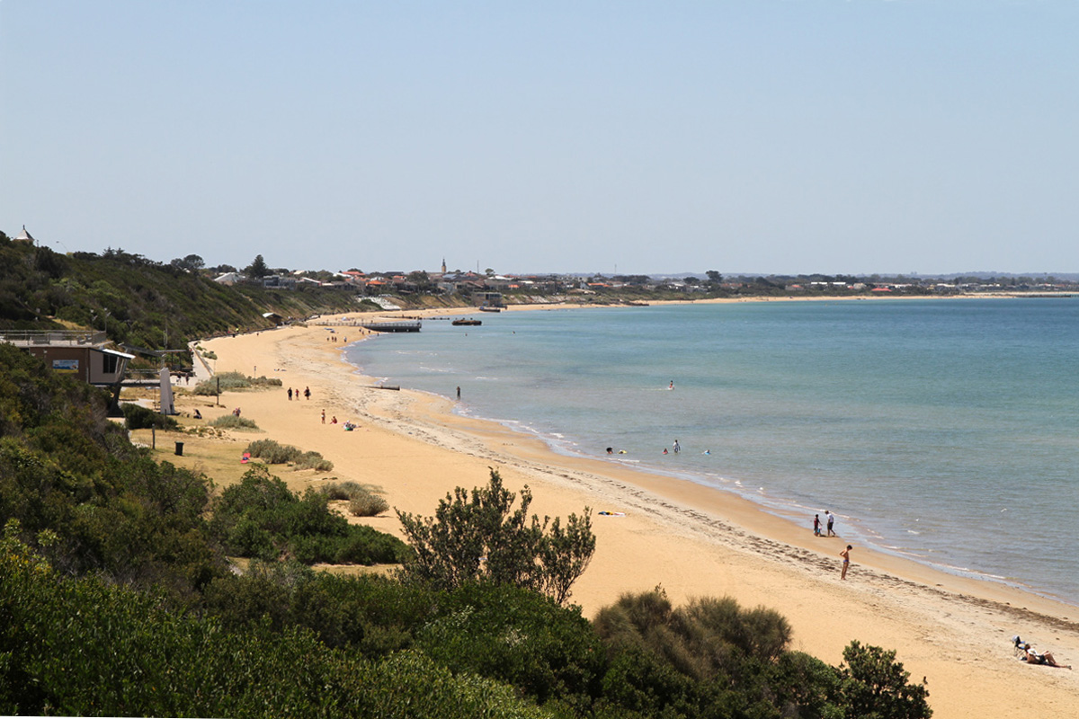 Looking south-east over Mentone Beach and Beaumaris Bay with the Mentone Lifesaving Club to the far left of image, Mentone, Victoria, Australia.